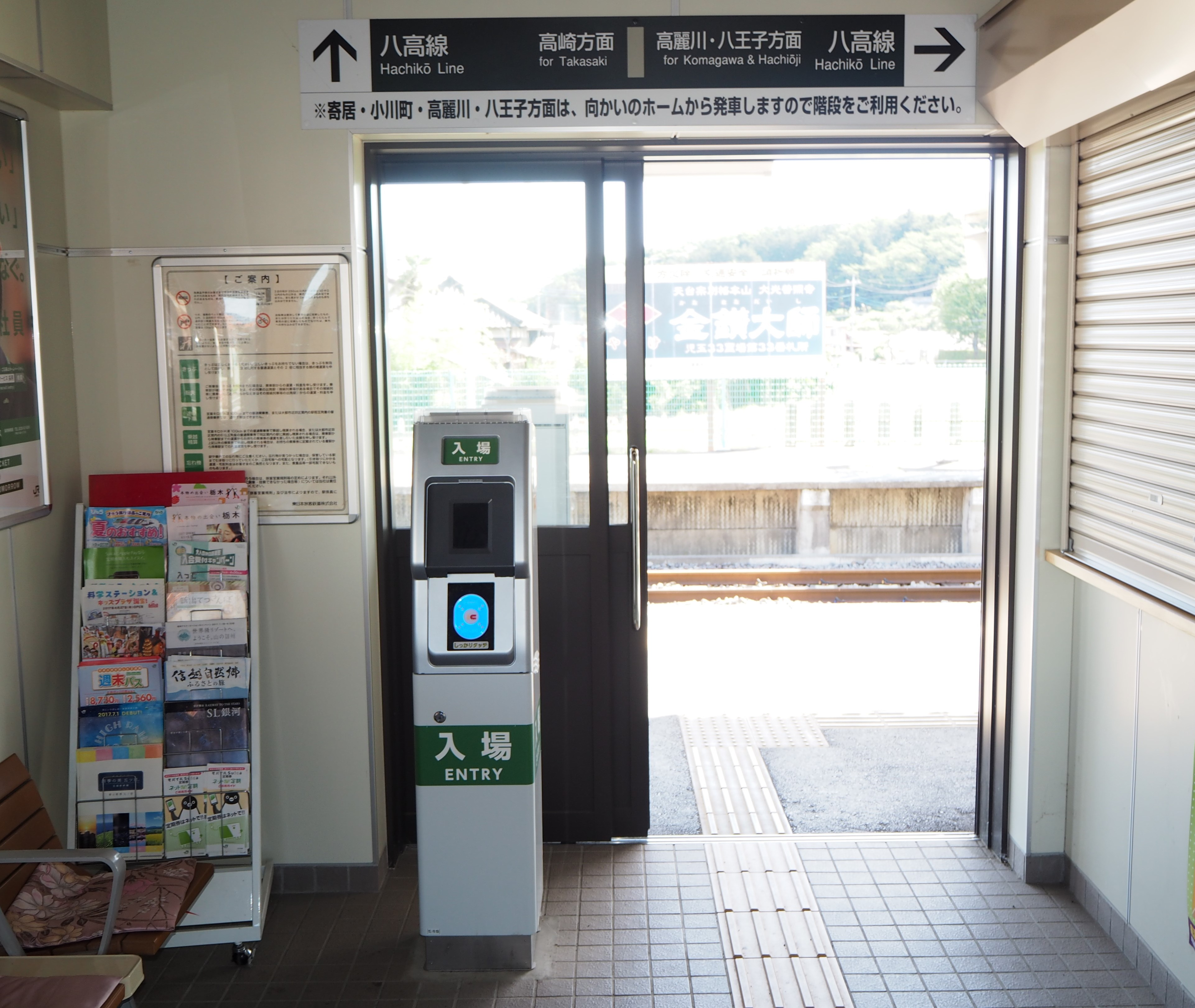 Ticket barriers of Kodama Station